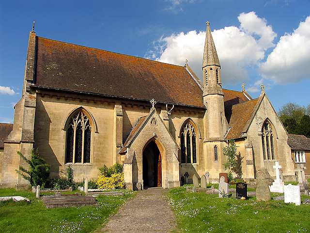 Roman Catholic church of St Mary, East Hendred, Oxfordshire